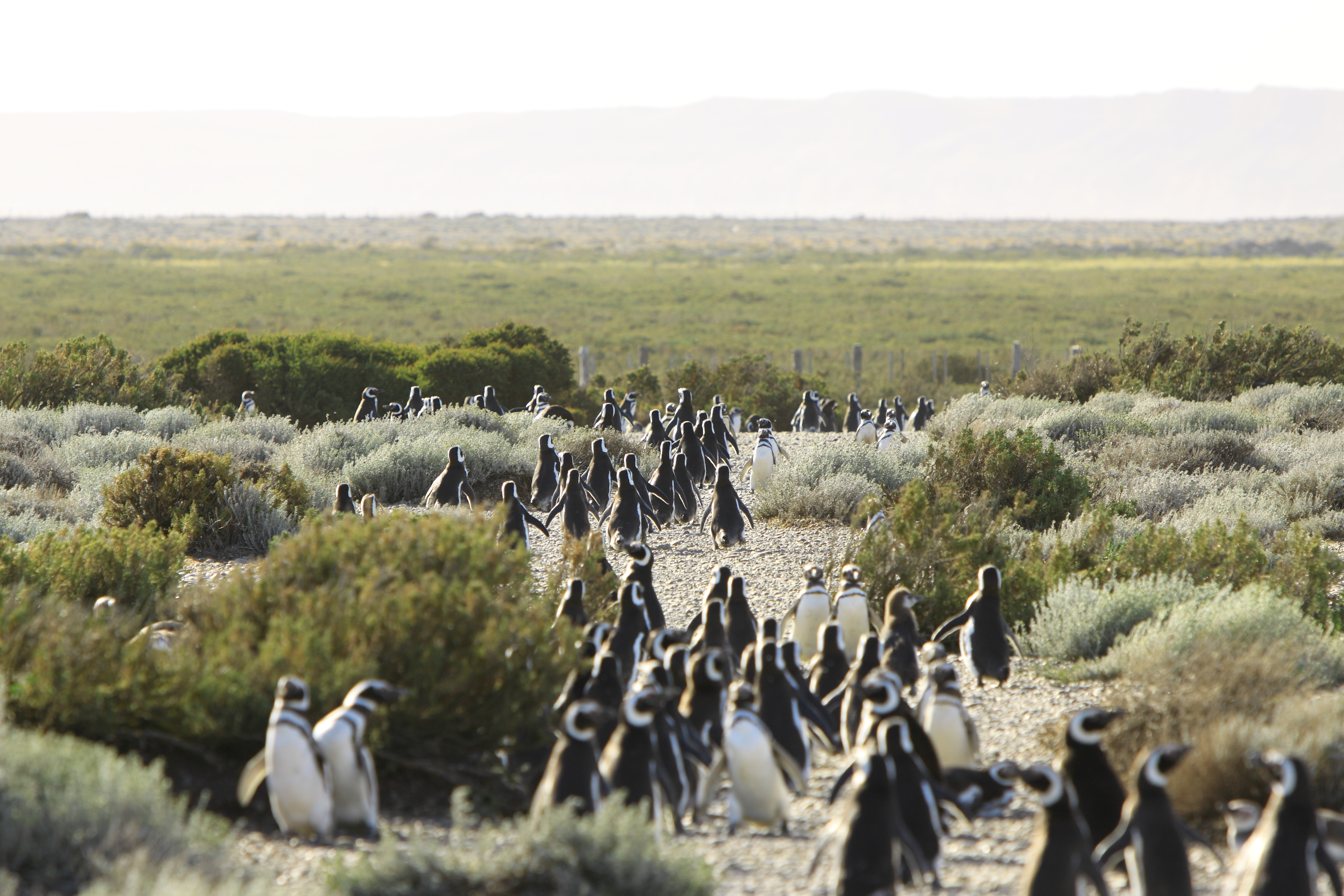 Please, have this description accessible to all by translating it in different languages.